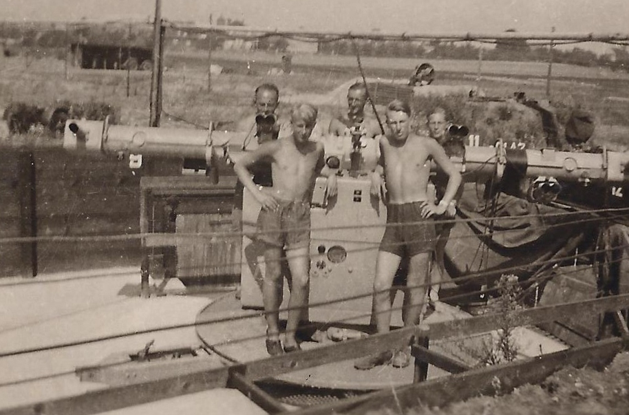 8,8cm-anti-aircraft battery in Berlin-Karow, Luftwaffenhelfer (born 1927) on the Kommandogerät 40 (August 1943)